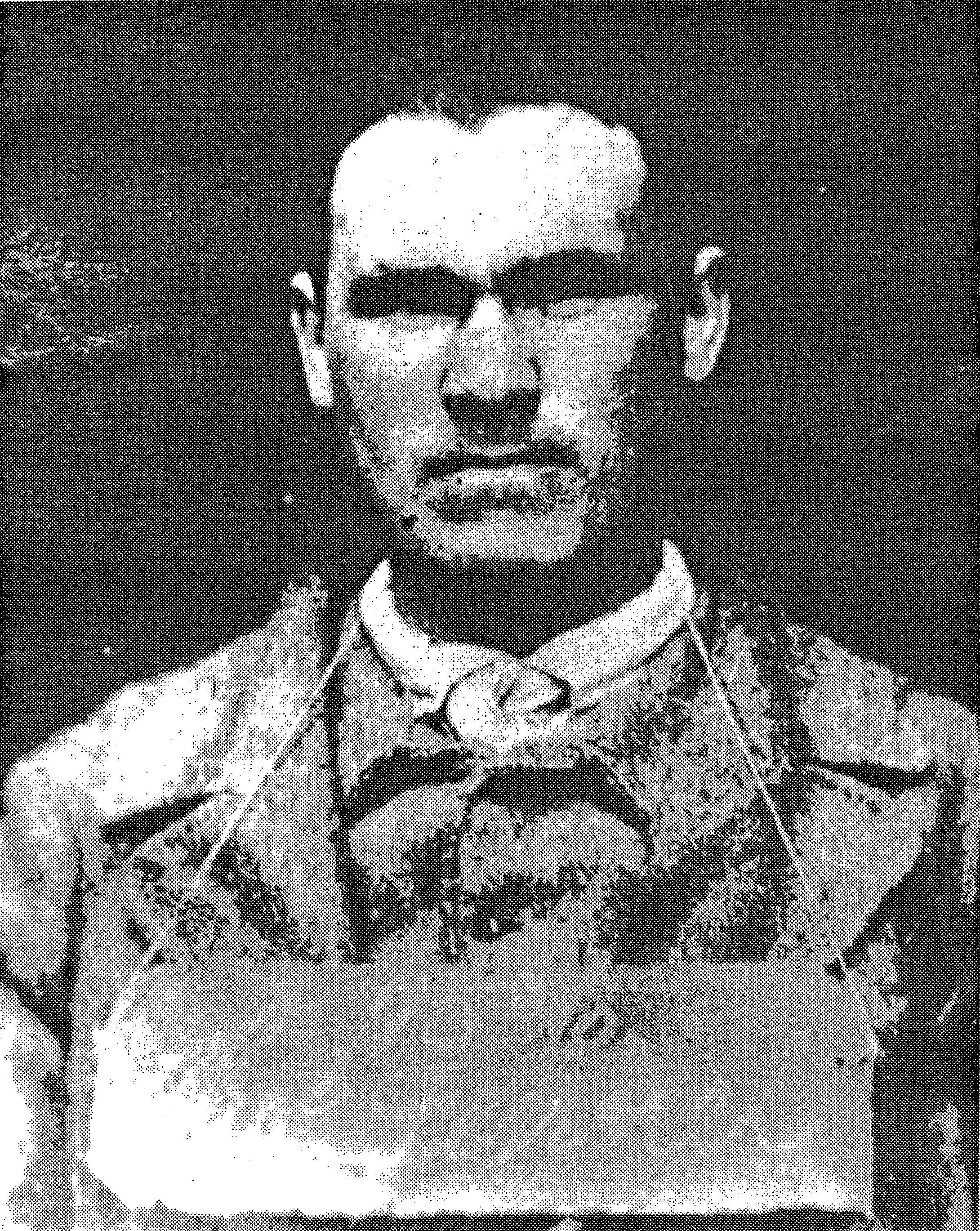 This is a photograph of Thomas McCarthy Fennell (1841-1914) taken in 1867 while Fennell was incarcerated in Mountjoy Prison.